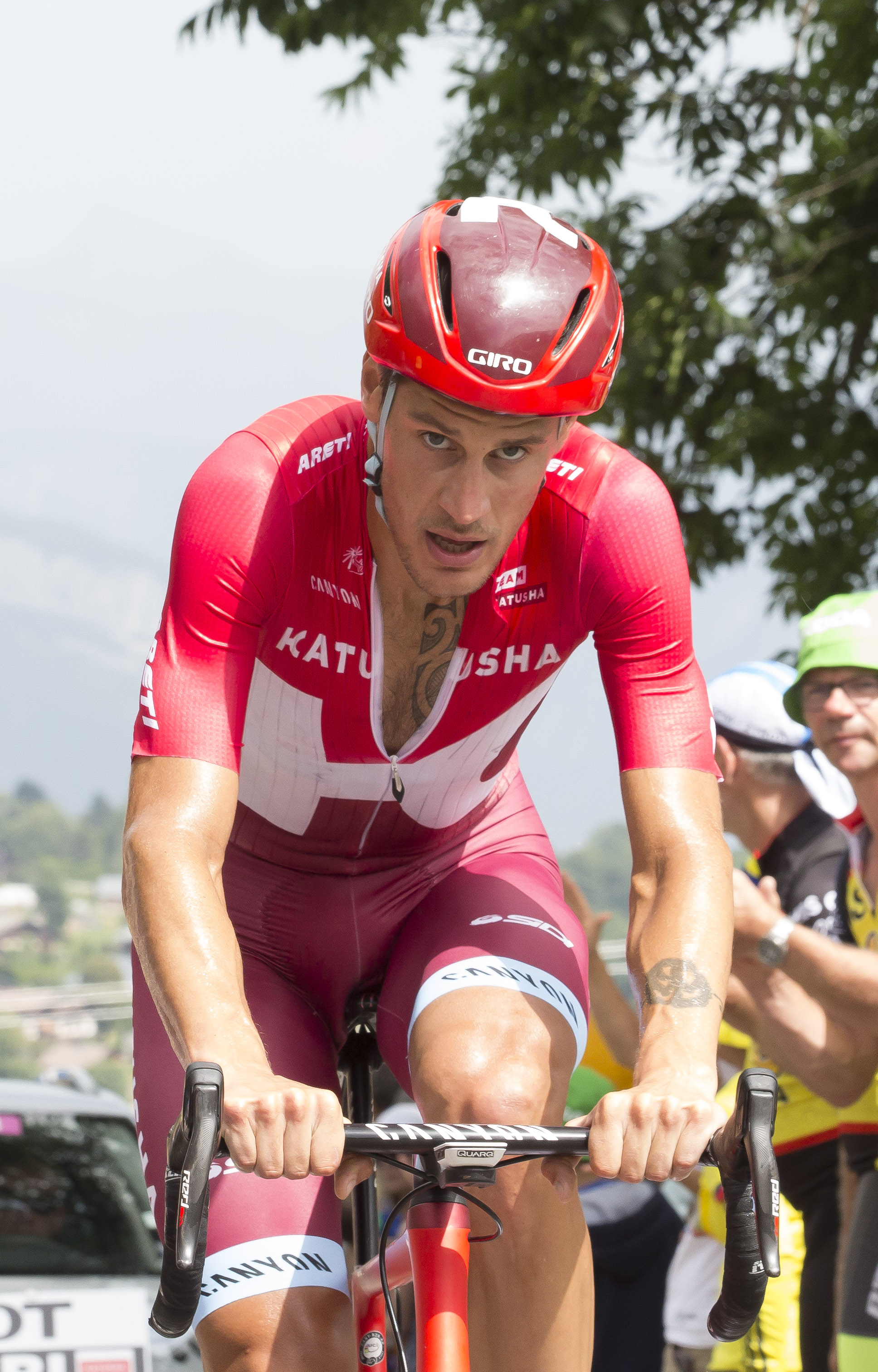 Stage 18 - Sallanches to Megève